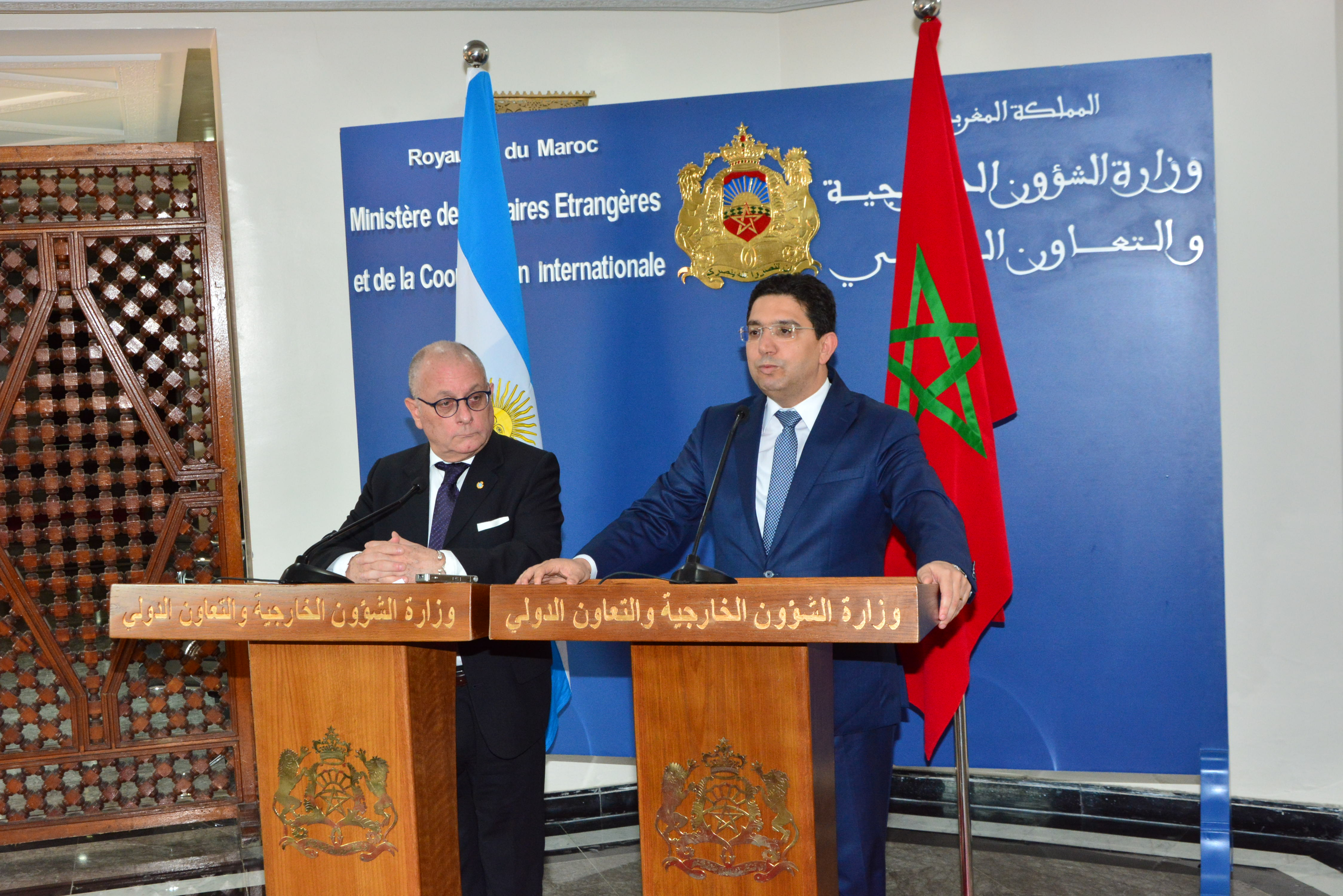 El canciller Jorge Faurie llevó a cabo hoy una intensa agenda de actividades en la ciudad de Rabat con el objetivo de profundizar los vínculos políticos y económicos con el Reino de Marruecos, que incluyó una reunión bilateral con su par marroquí, Nasser Bourita, y encuentros en el Ministerio de Agricultura y con autoridades del Parlamento de ese país.